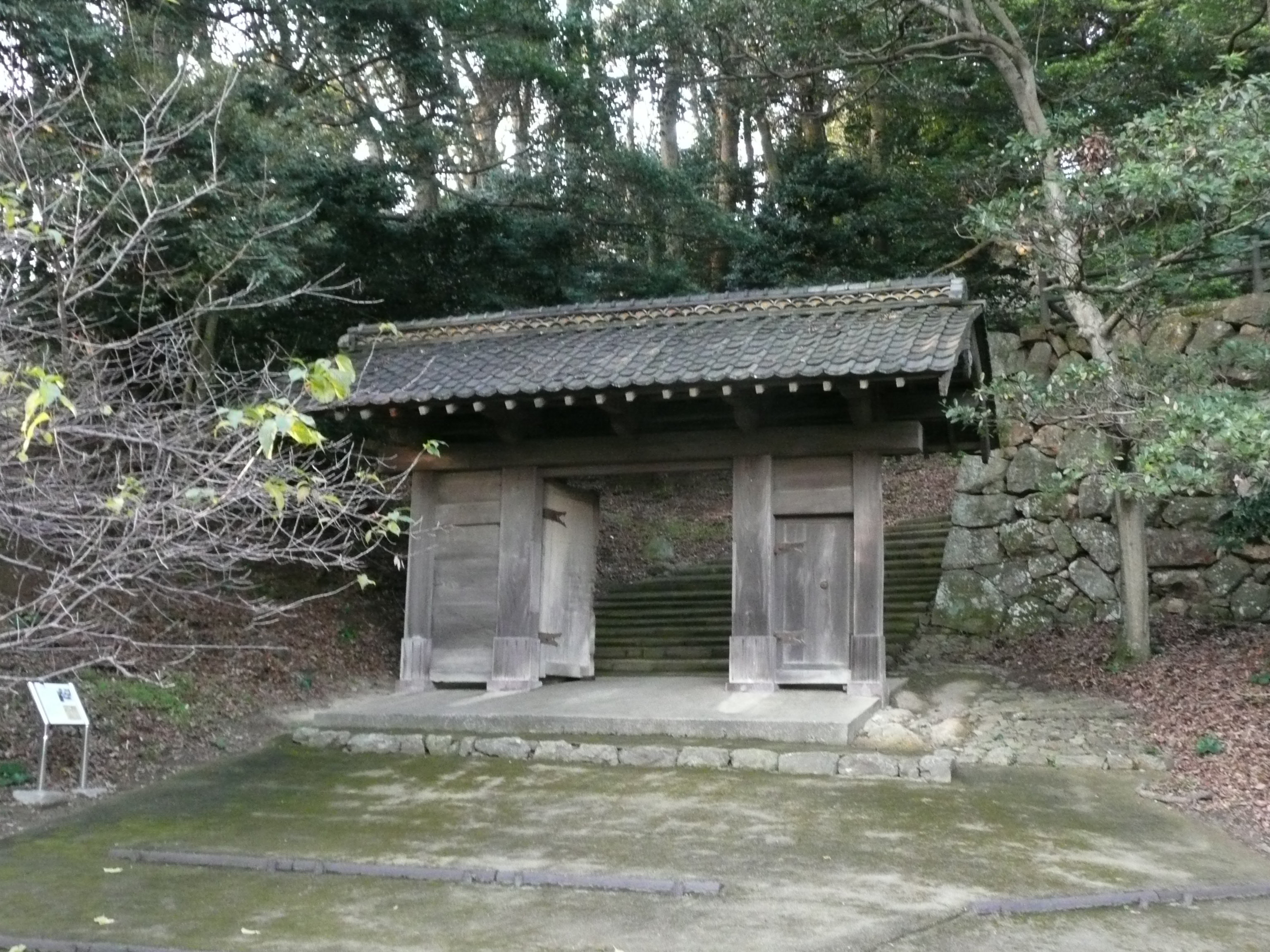 浜田城に移築されている津和野藩の門